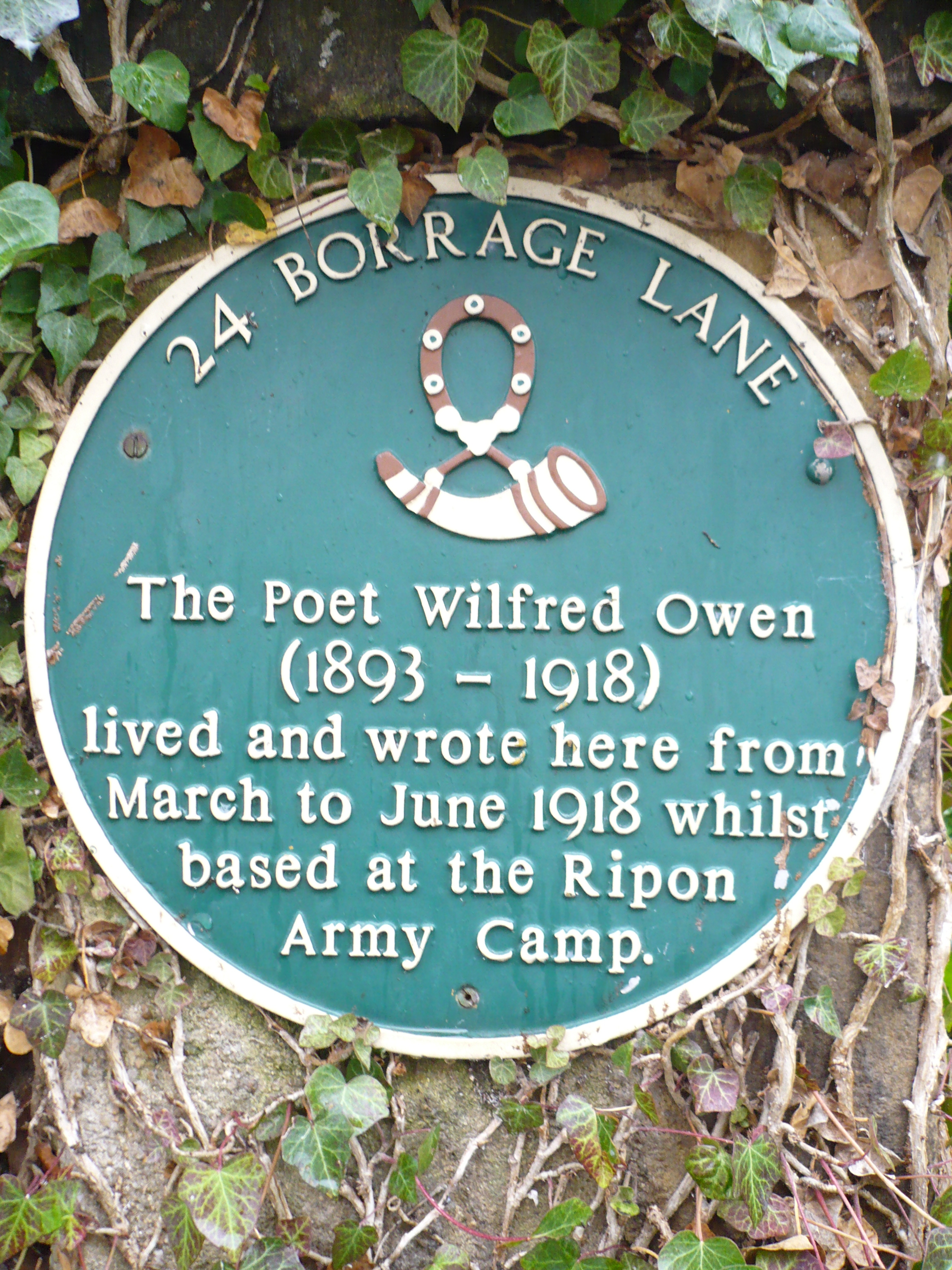 cottage in Ripon